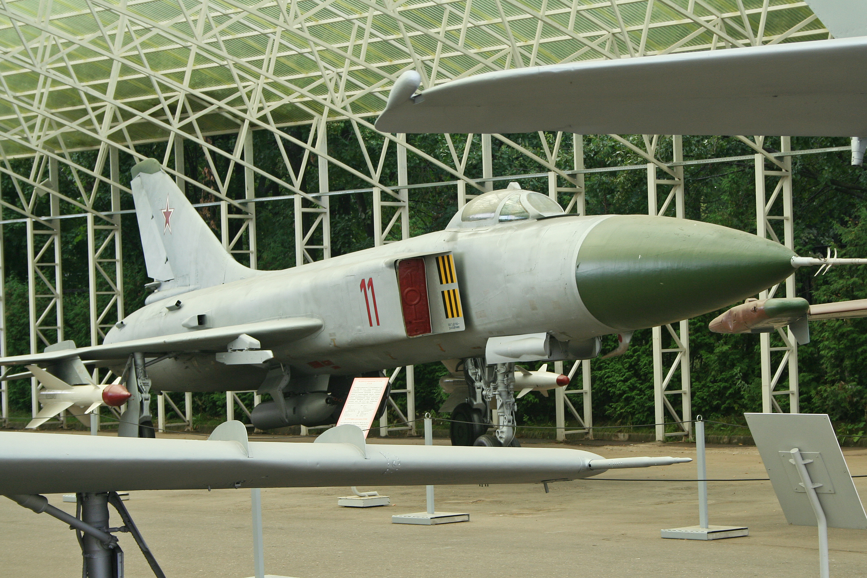 Previous bort code '11 yellow'. msn 1015329. Not the easiest aircraft type to photograph at the best of times, the best result I got here was by framing it between the wing and tailplane of two of the MiG fighters. On display at the Museum of the Great Patriotic War in Victory Park, Moscow. 11-8-2012